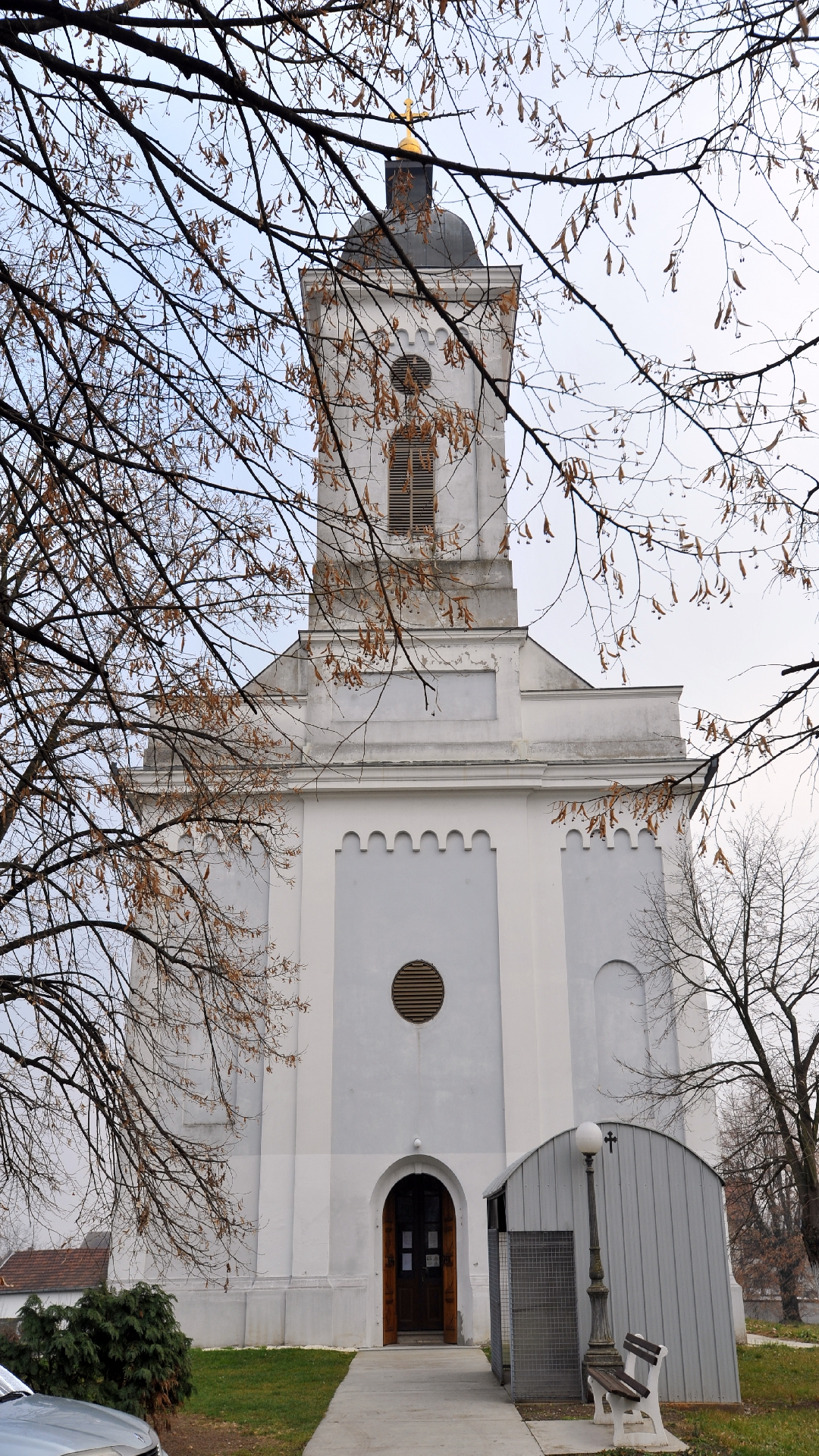 Church of the Nativity of the Virgin in Bogatić, view and entrance